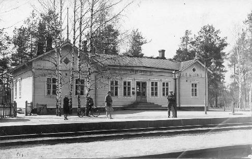 Kellomäki (in Terijoki) railway station before second world war